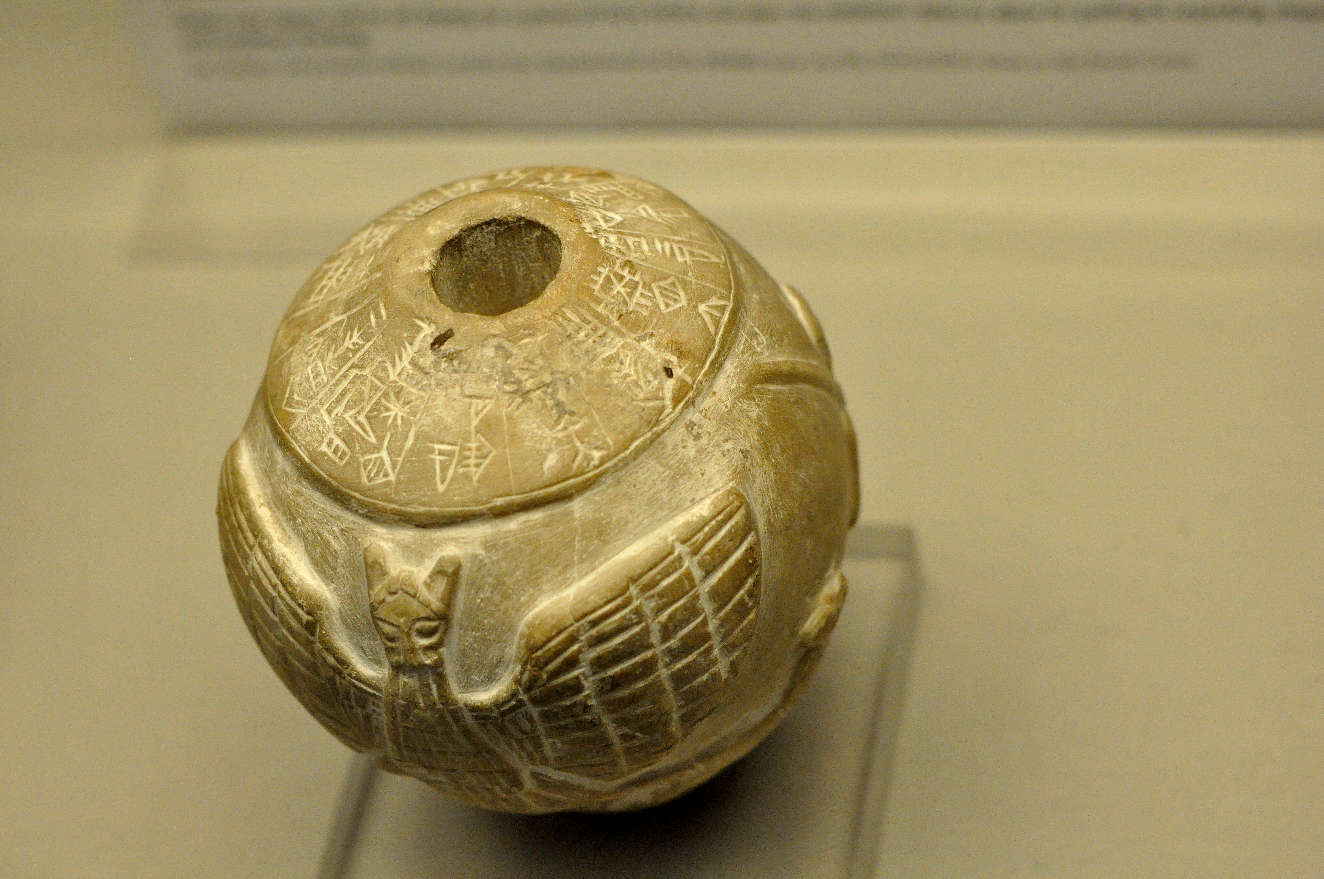 Mace head dedicated to the God Ningirsu. On the mace, Imdugud, the lion-headed eagle, grasps a pair of lion. There are 3 human figures on the sides and back of this mace's head. The largest one probably depicts Enannatum, king of Lagash. From Girsu (modern Tell Telloh, Dhi Qar Governorate), Southern Mesopotamia, Iraq. Circa 2400 BCE, early dynastic III period. The British Museum, London.